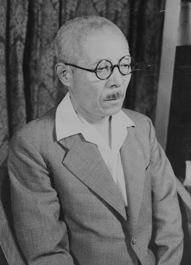 Kimura Heitarō during the trial for war crimes at International Military Tribunal for the Far East